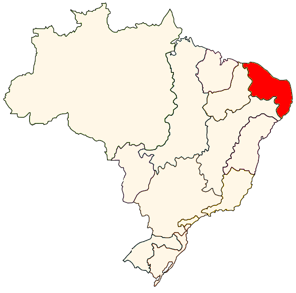 Hydrographics regions in Brazil - Atlântico Nordeste Oriental